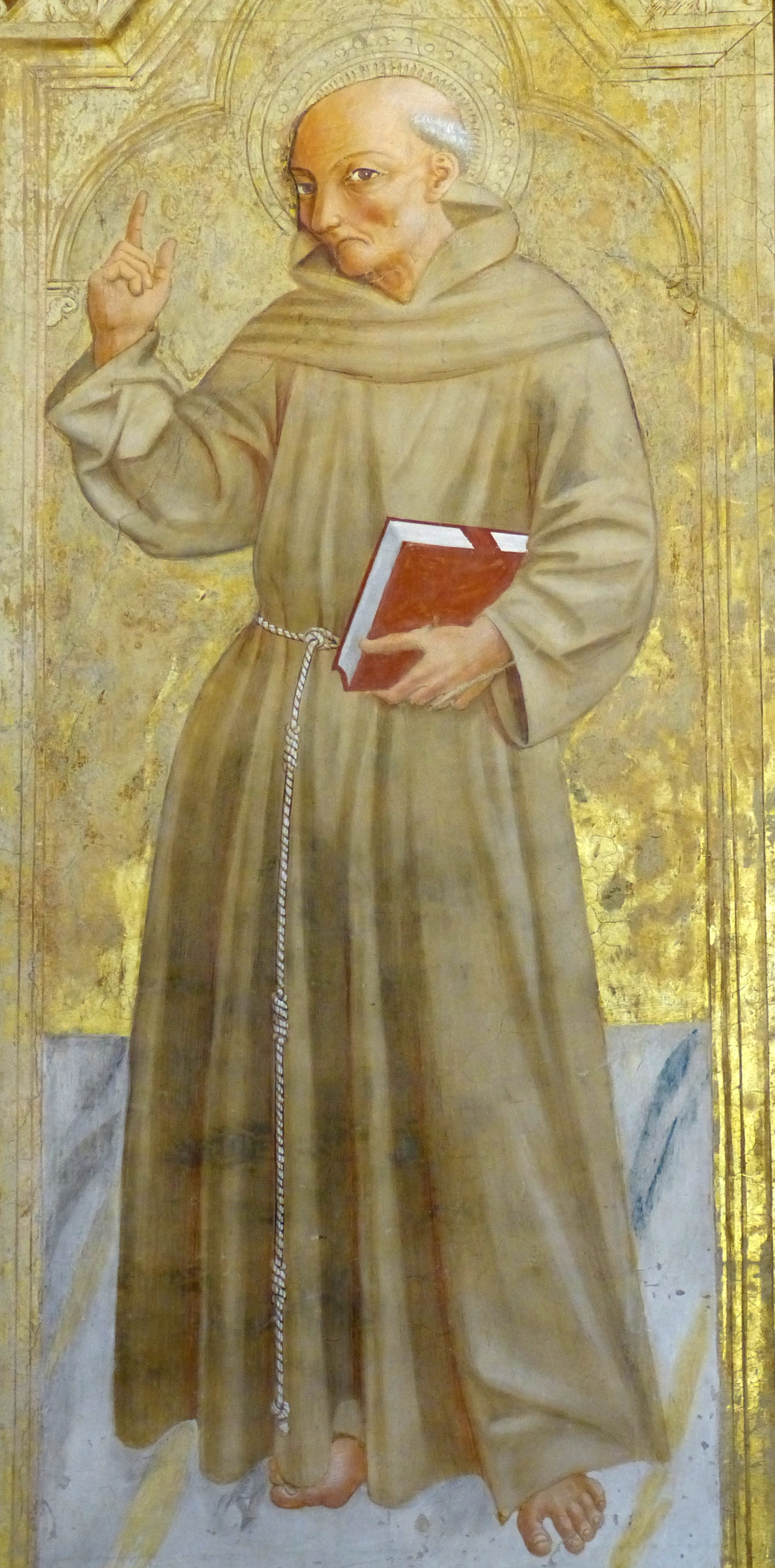 Montefalco ( Umbria ). San Francesco - Chapel of Saint Bernardin of Siena: Fresco (1469) of Saint Bernardin of Siena by Jacopo Vincioli.